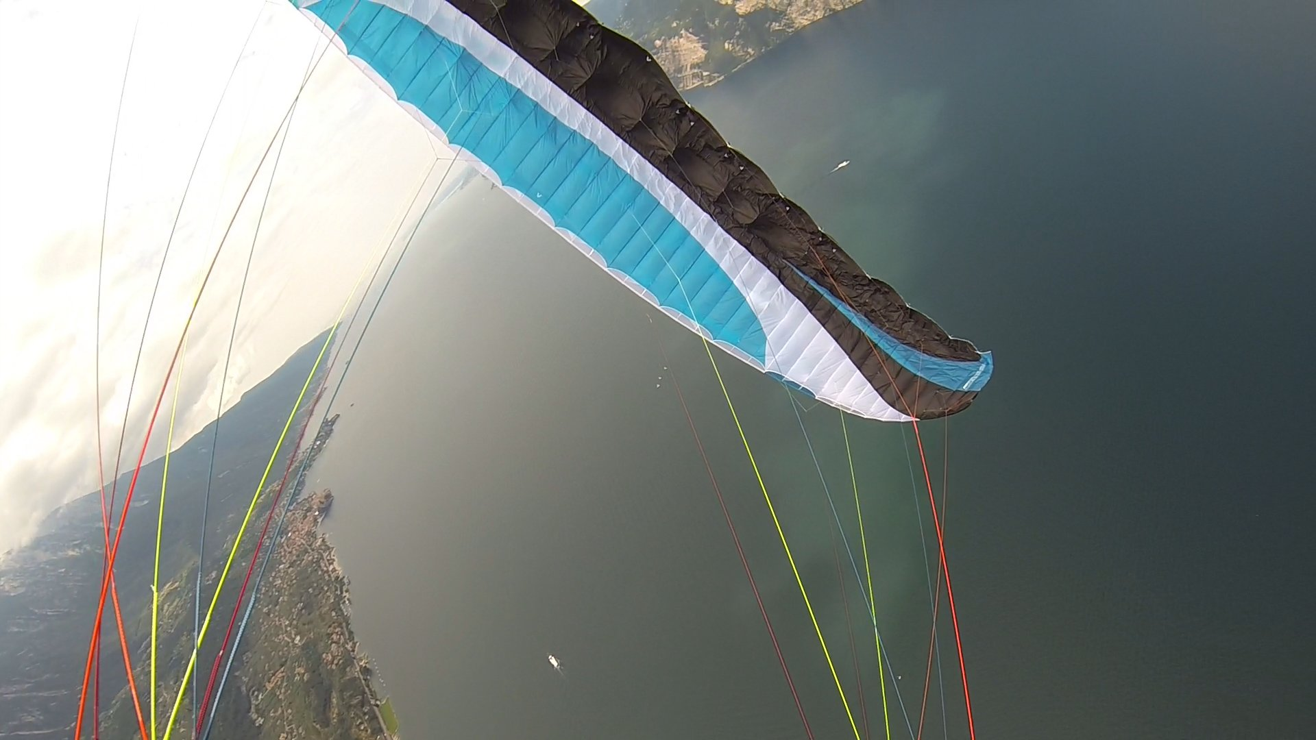 Wingover